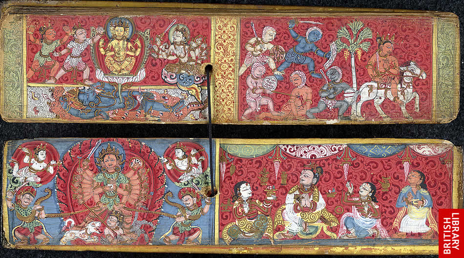 Devimahatmya, Bhaktapur, Nepal, 1549. 32 miniatures painted during the reign of Jayapranamalla of Bhaktapur, Nepal.